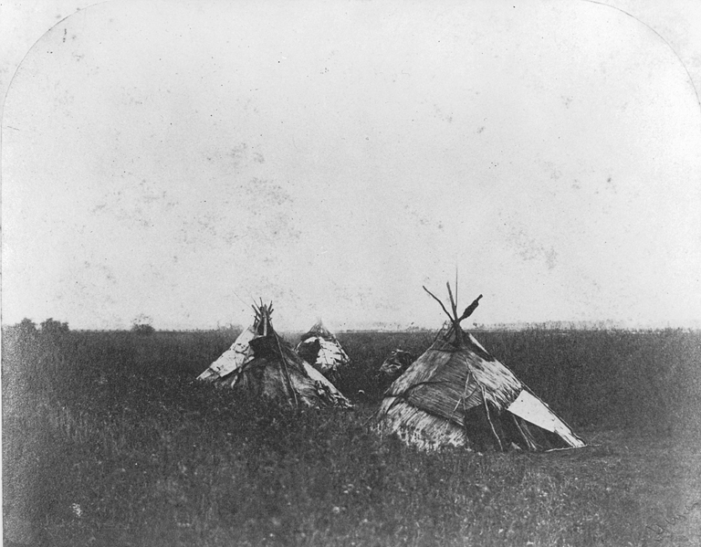 Tents on the prairie, west of the settlement, Red River, Manitoba, 1858